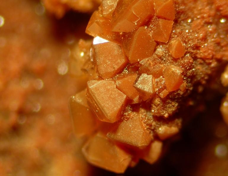 Hopeite Locality: Kabwe Mine (Broken Hill Mine), Kabwe (Broken Hill), Central Province, Zambia (Locality at ) Field of view 7 mm. Specimen and photo Leon Hupperichs.